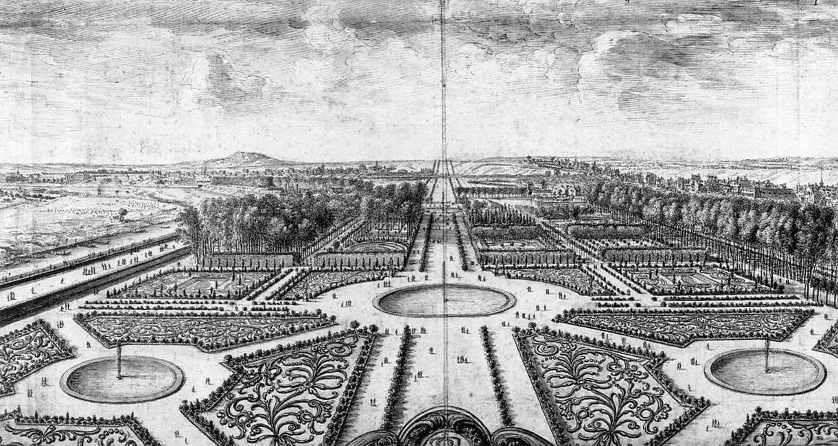 View of the Tuileries Gardens, Pen and wash, 383 x 528 mm